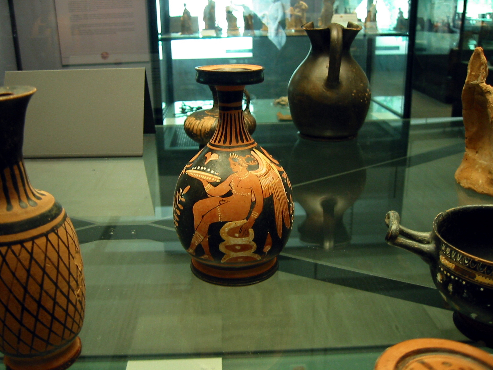 Pottery from the excavations of Siris and Herakleia in Magna Graecia. On view in the Museo Nazionale Della Siritide in Policoro in Italy.